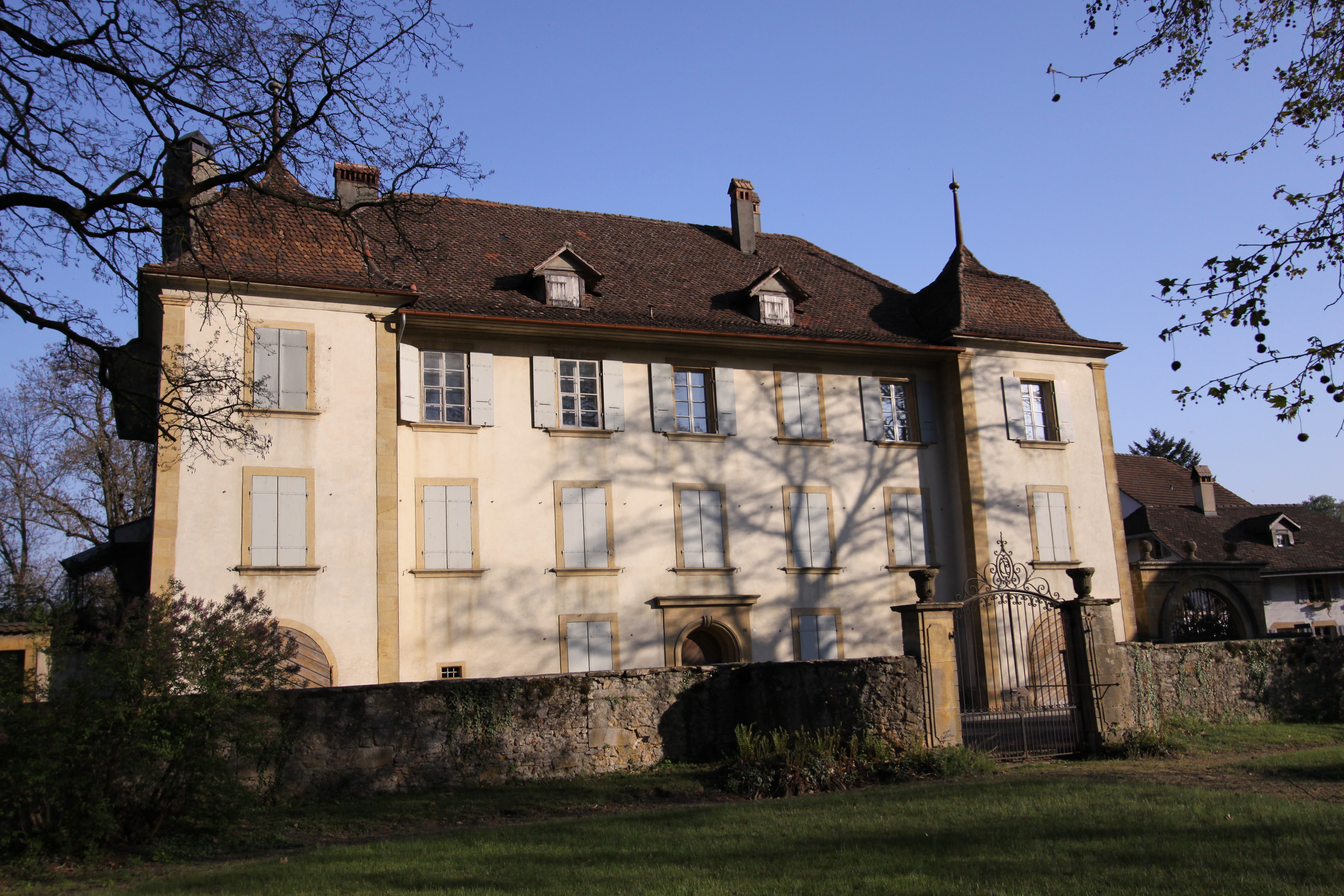 Von Ernst Manor House, Hauptstrasse 45, Muntelier